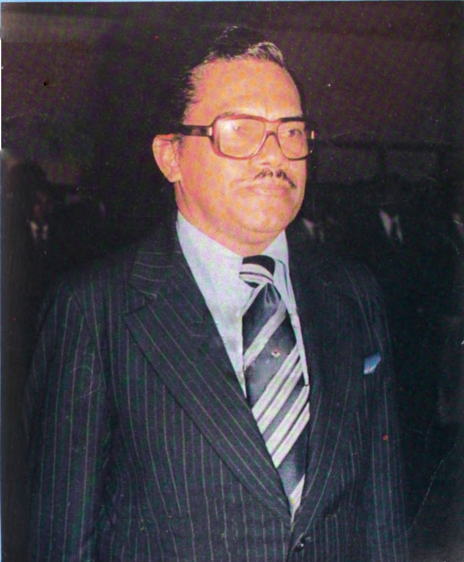 Eddy Sabara at his sworn in as the Inspector General of the Department of Home Affairs of Indonesia.